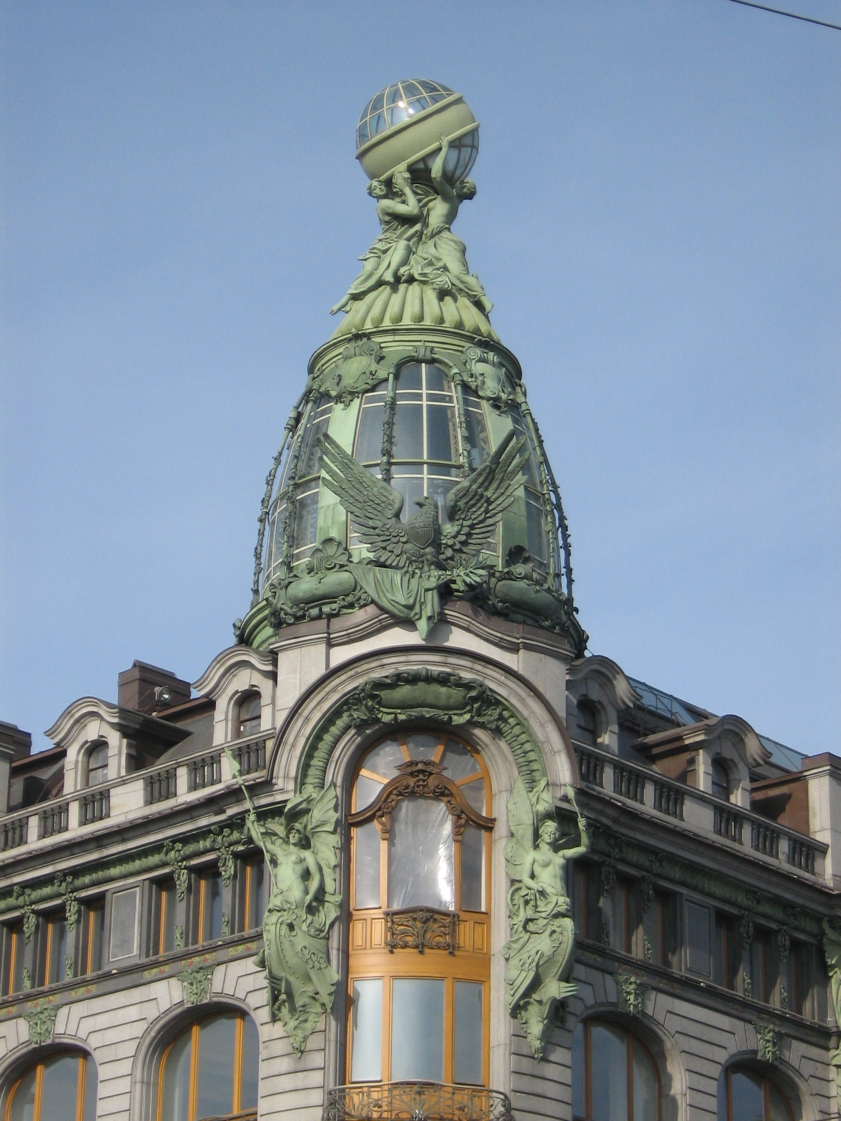 Earth-ball on Singers Hause